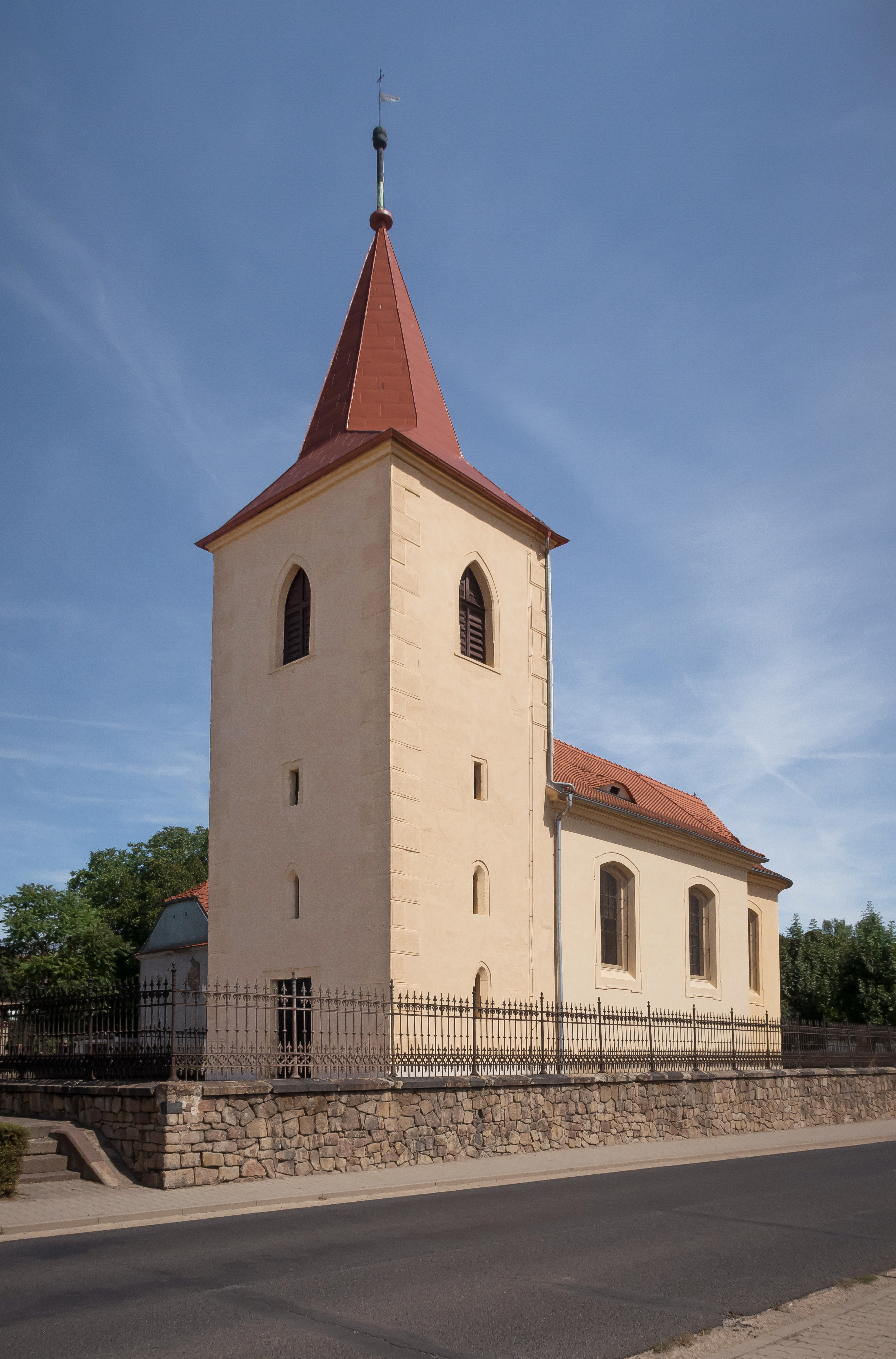 Mlékojedy, church: kostel svatého Martina